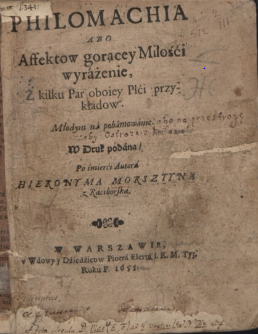 First page of Philomachia